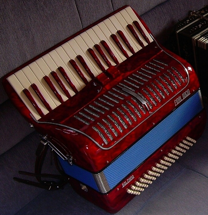 Fisarmonica Fidel Socin Bolzano 1930